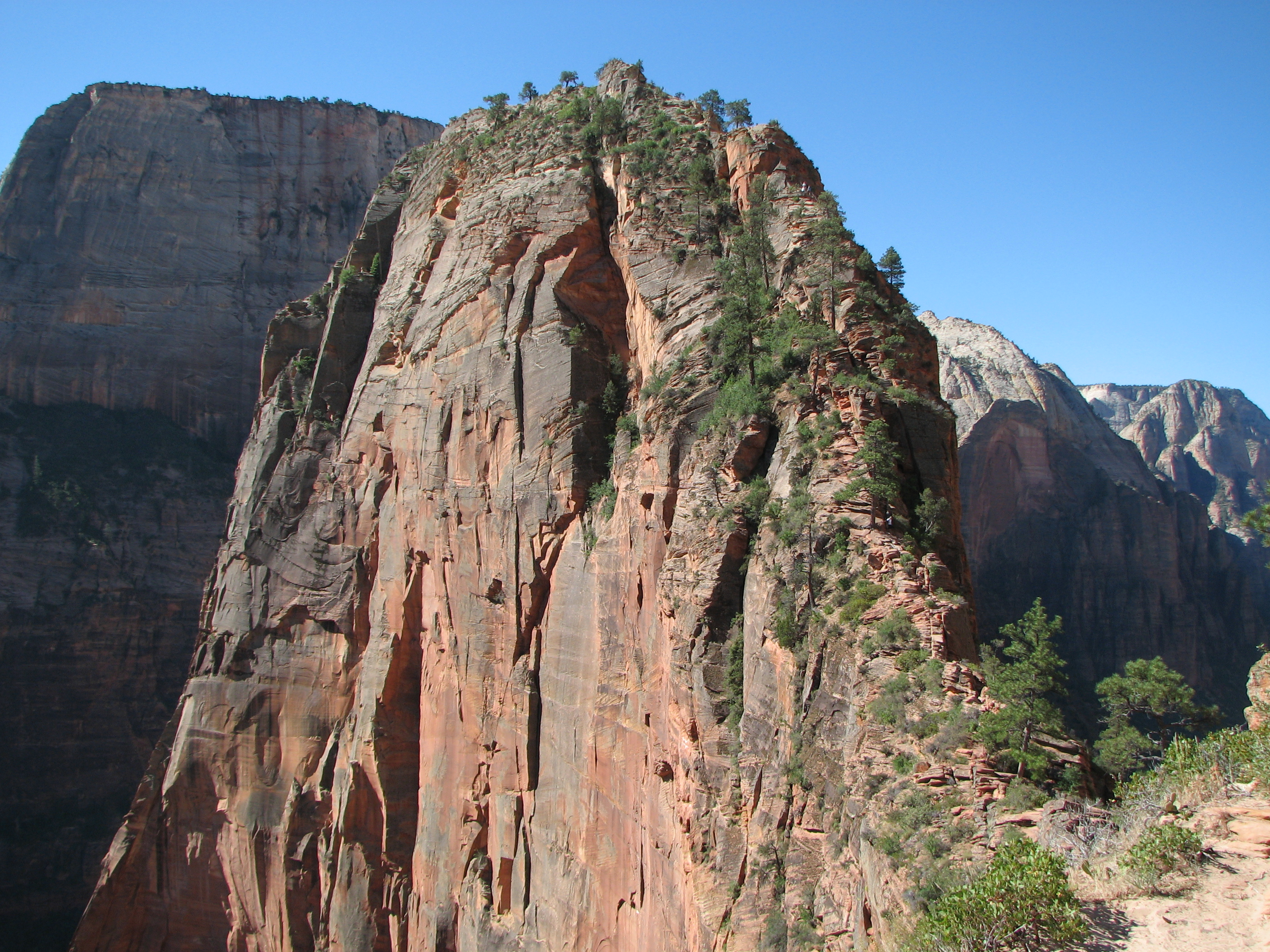 View of the ridge of Angels Landing from Scout Lookout, Zion National Park.